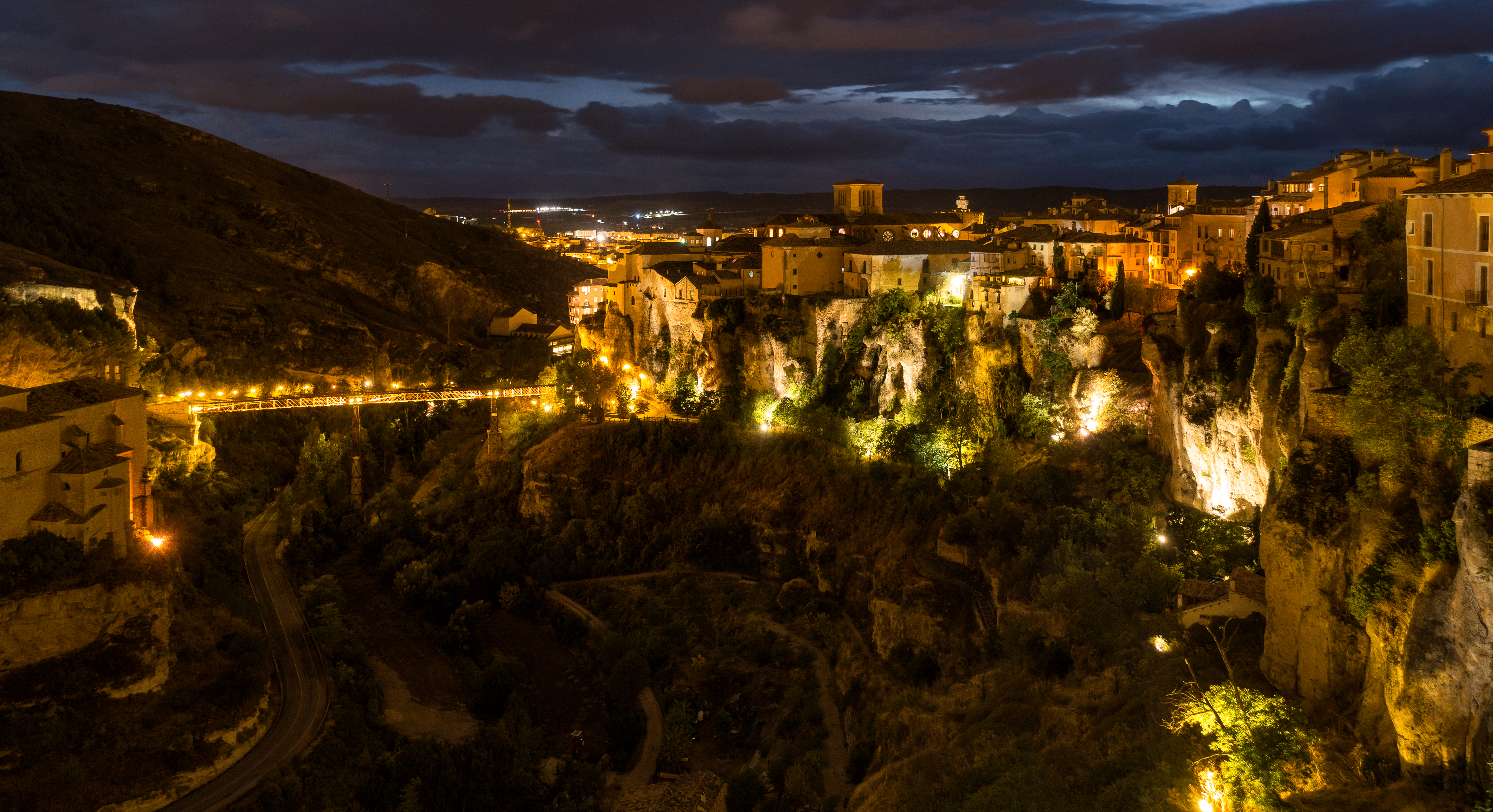 General view of the historical centre of Cuenca at night. Cuenca, Spain.